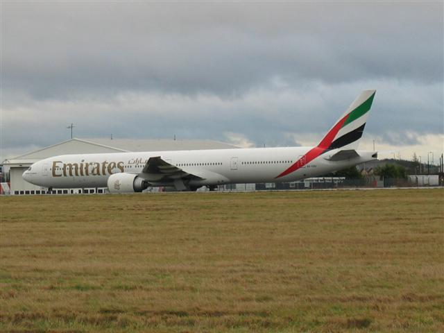 Aircraft taxing at Glasgow Airport